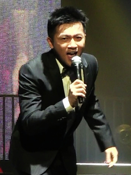 Alec Su performing in the Fantasy Stars Chinese New Year Concert at the MGM Grand Garden Arena, January 28, 2012.